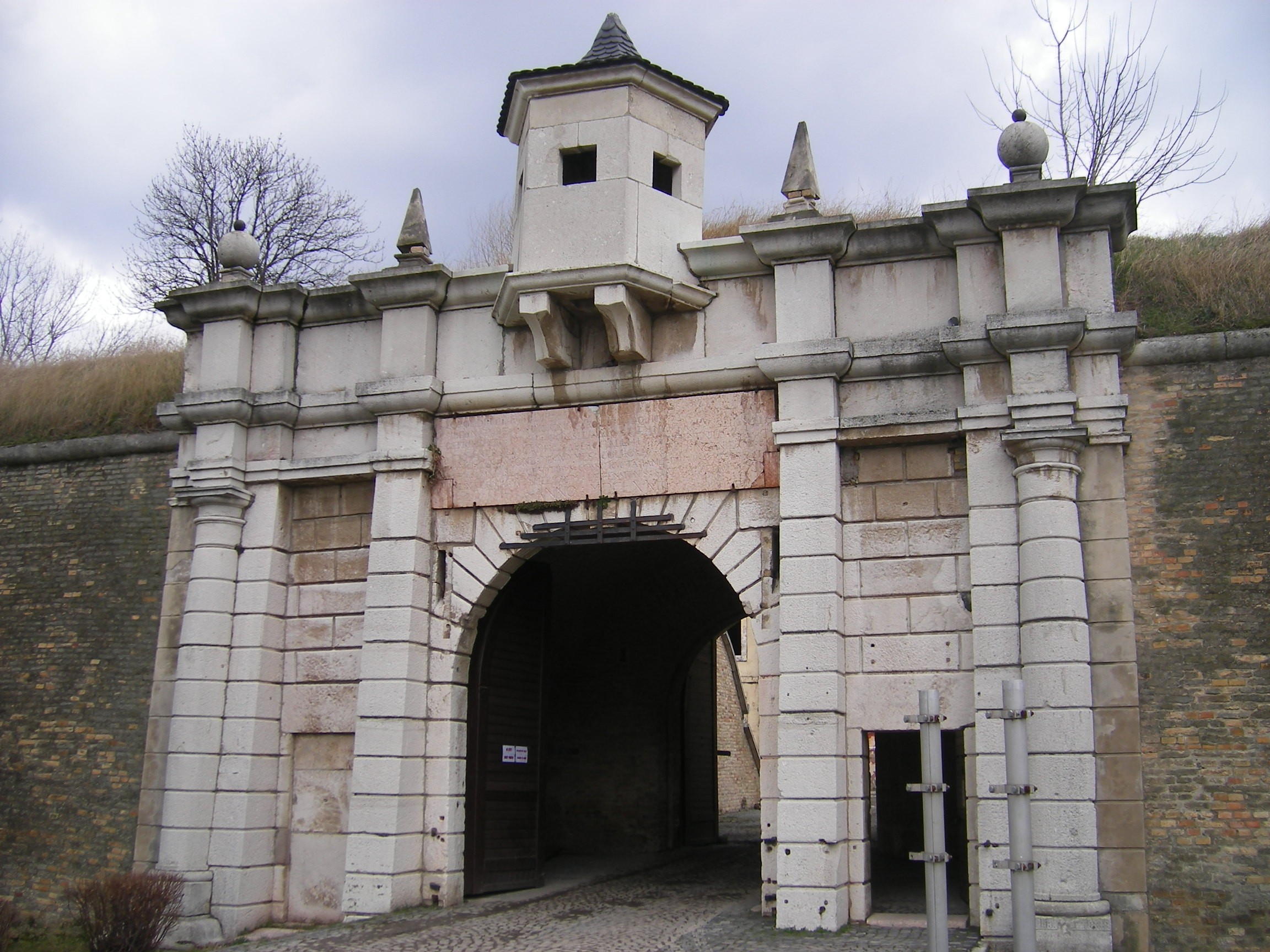 Komárno - Gate of the New Fortress.